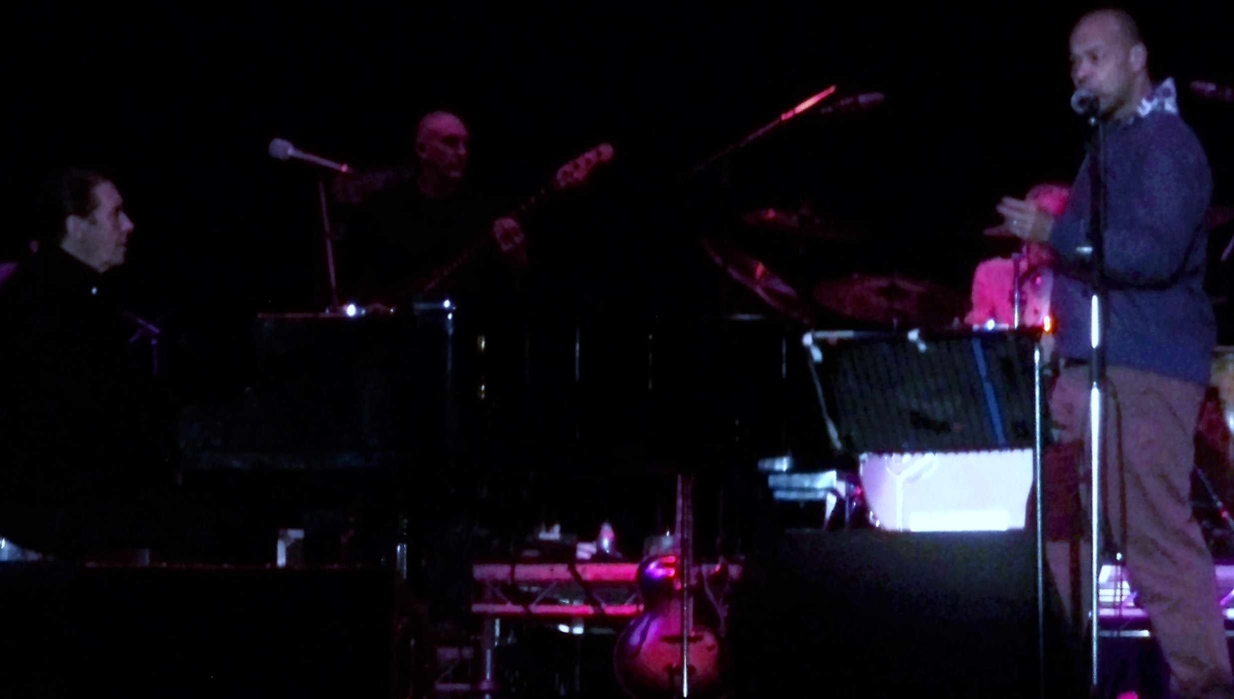 Roland Gift performing with Jools Holland at Guilfest 2012.